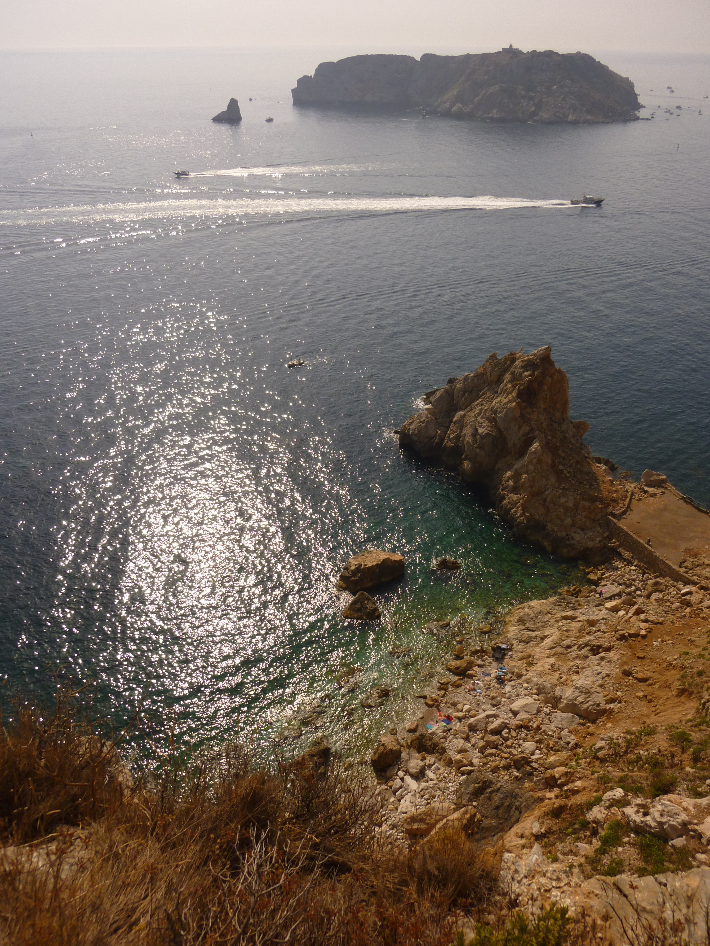 The "Cap de la Barra" with the peak of "El Molinet" and the "Meda Gran" (Torroella de Montgrí, Catalonia)